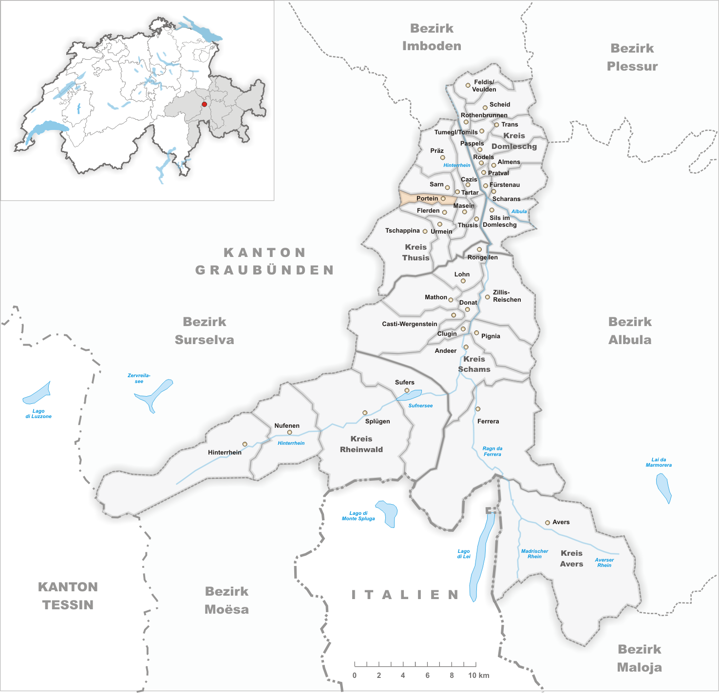 Municipality Portein